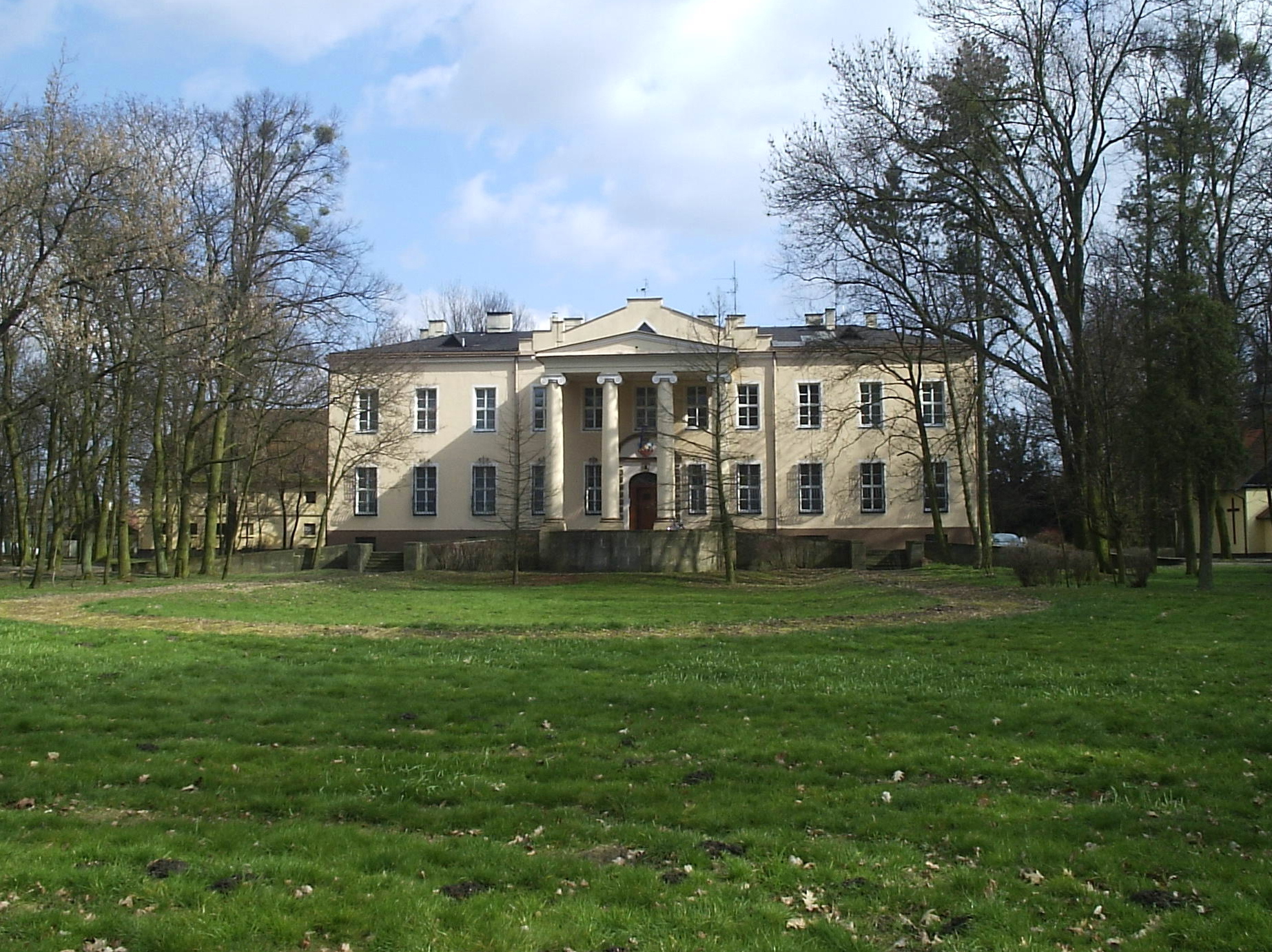 Palace in Szelejewo, Poland